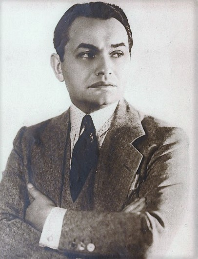 Edward G. Robinson